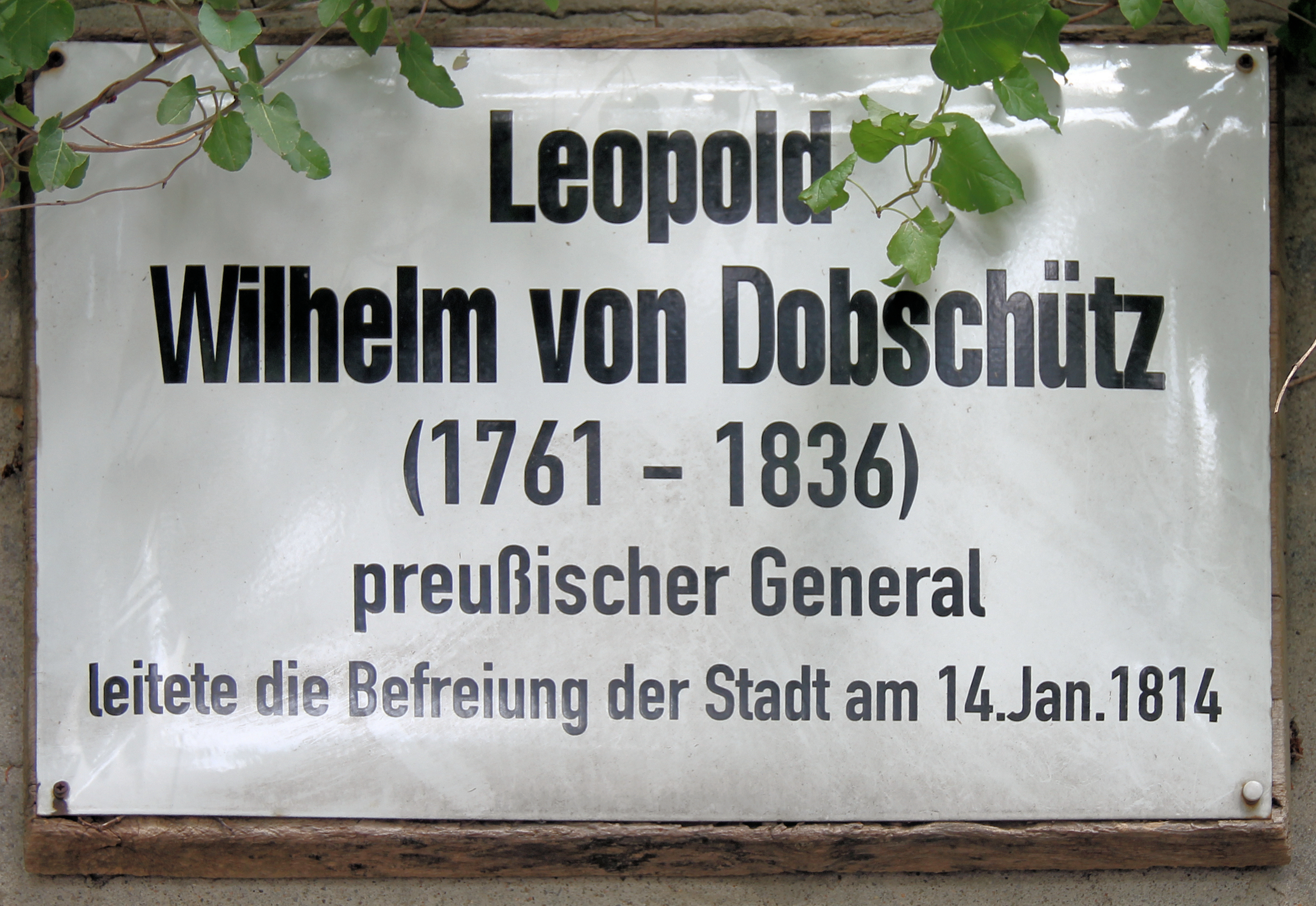 Memorial plaque, Leopold Wilhelm von Dobschütz, Schloßplatz, Lutherstadt Wittenberg, Germany Koordinate:51°51′59″N 12°38′18″E / 51.86639°N 12.63833°E